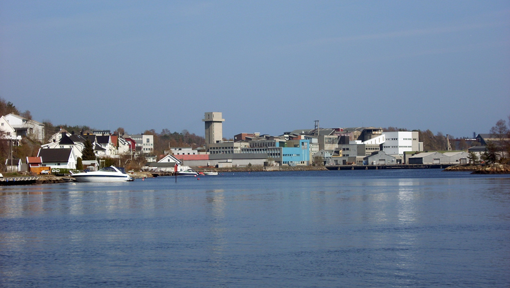 Arendal smelteverk in Eydehavn, Norway